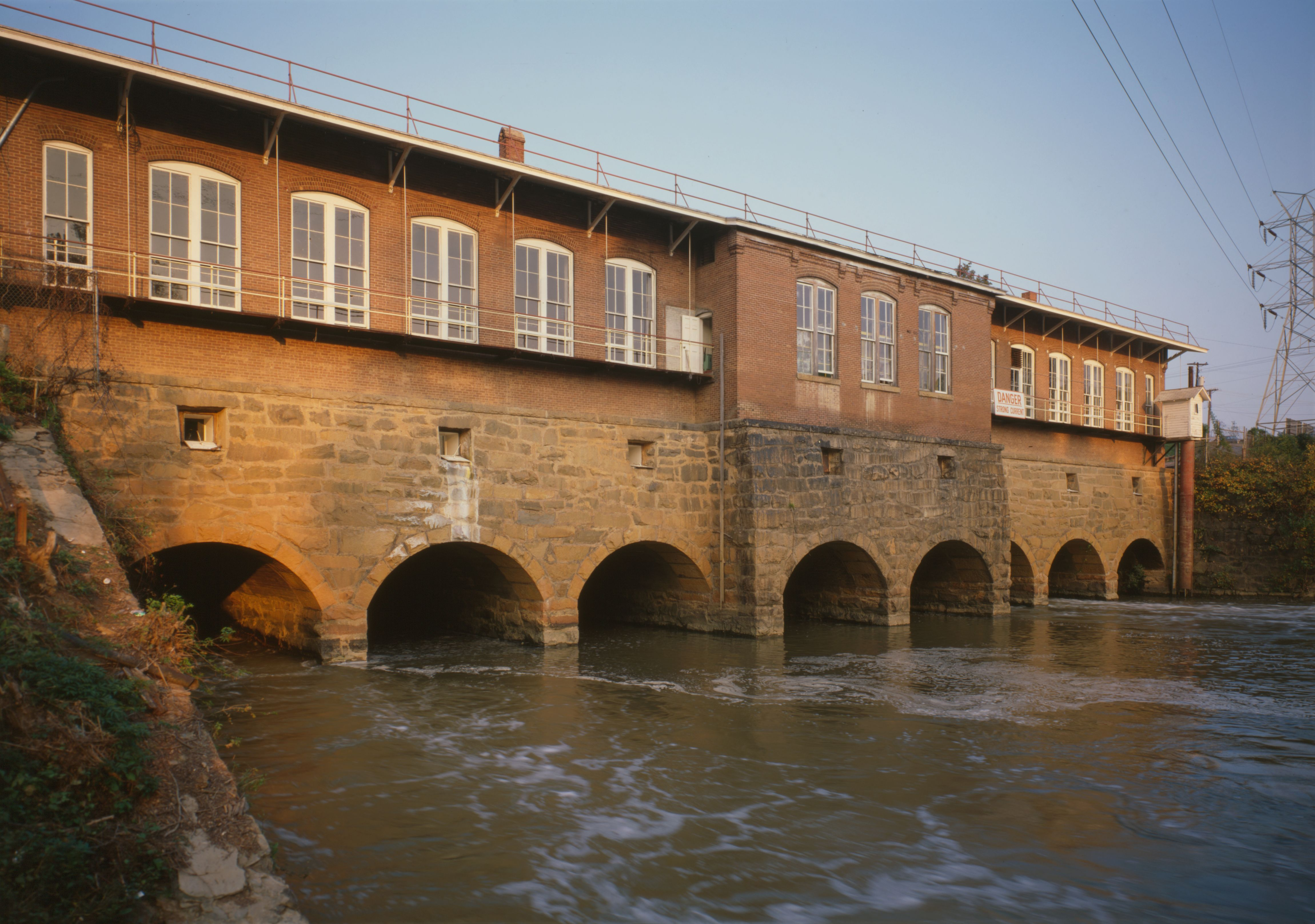 Columbia Canal Power Plant and Canal Races. Southwest, river front side of power plant, looking east.